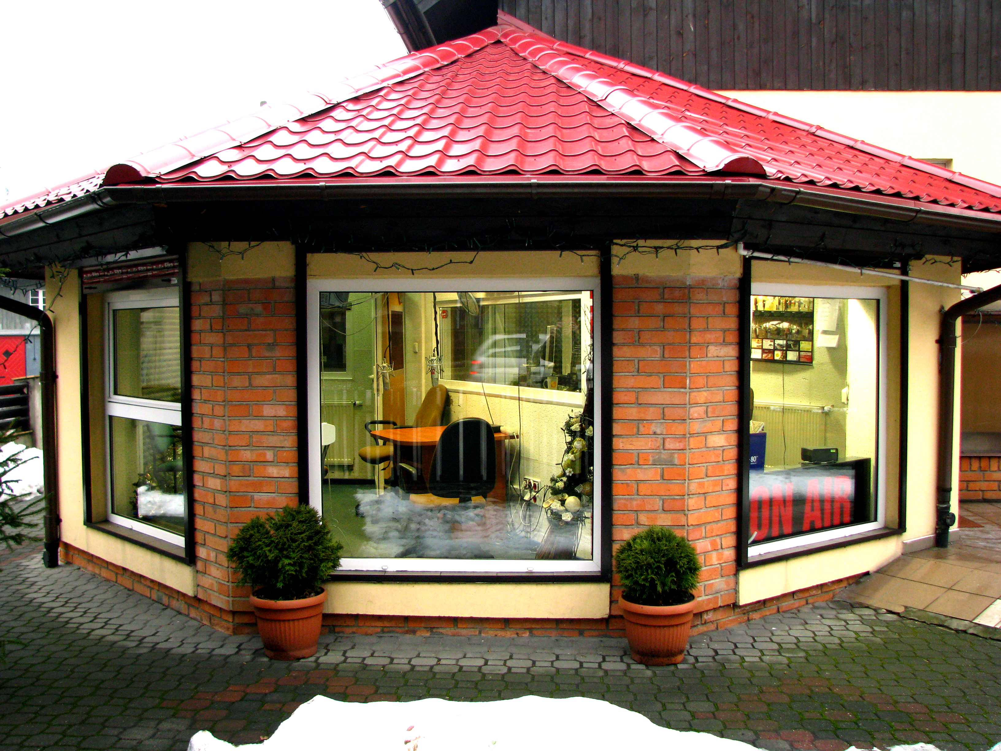 Studio of Radio Elka. Leszno. Poland.